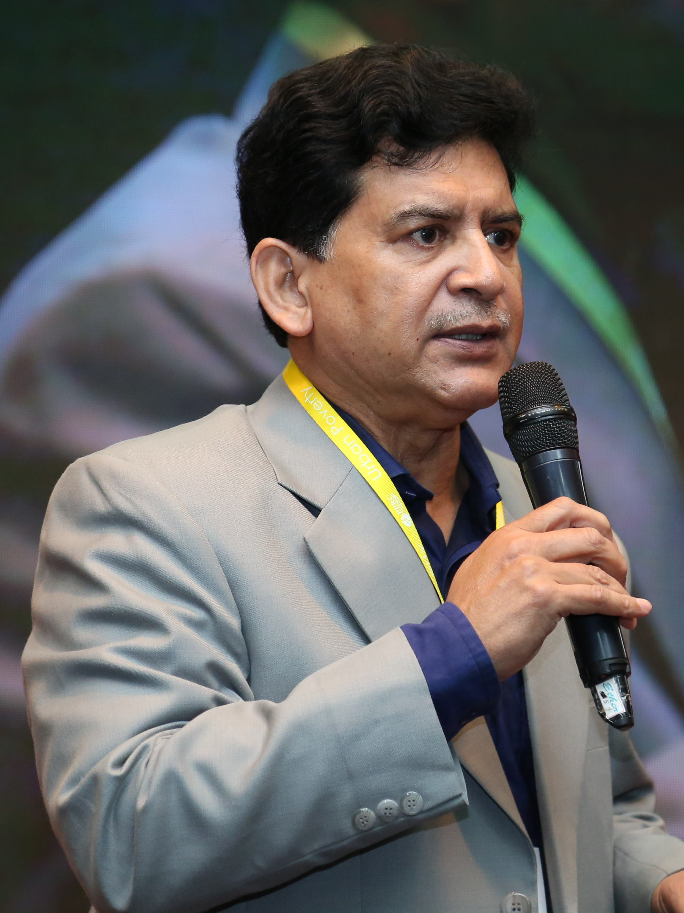 Urban Poverty Conference 2016